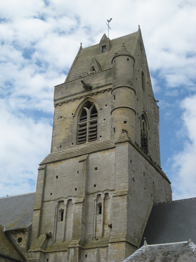 Bell tower of the Saint-Médard-et-Saint-Gildard's church in Crépon (Calvados)